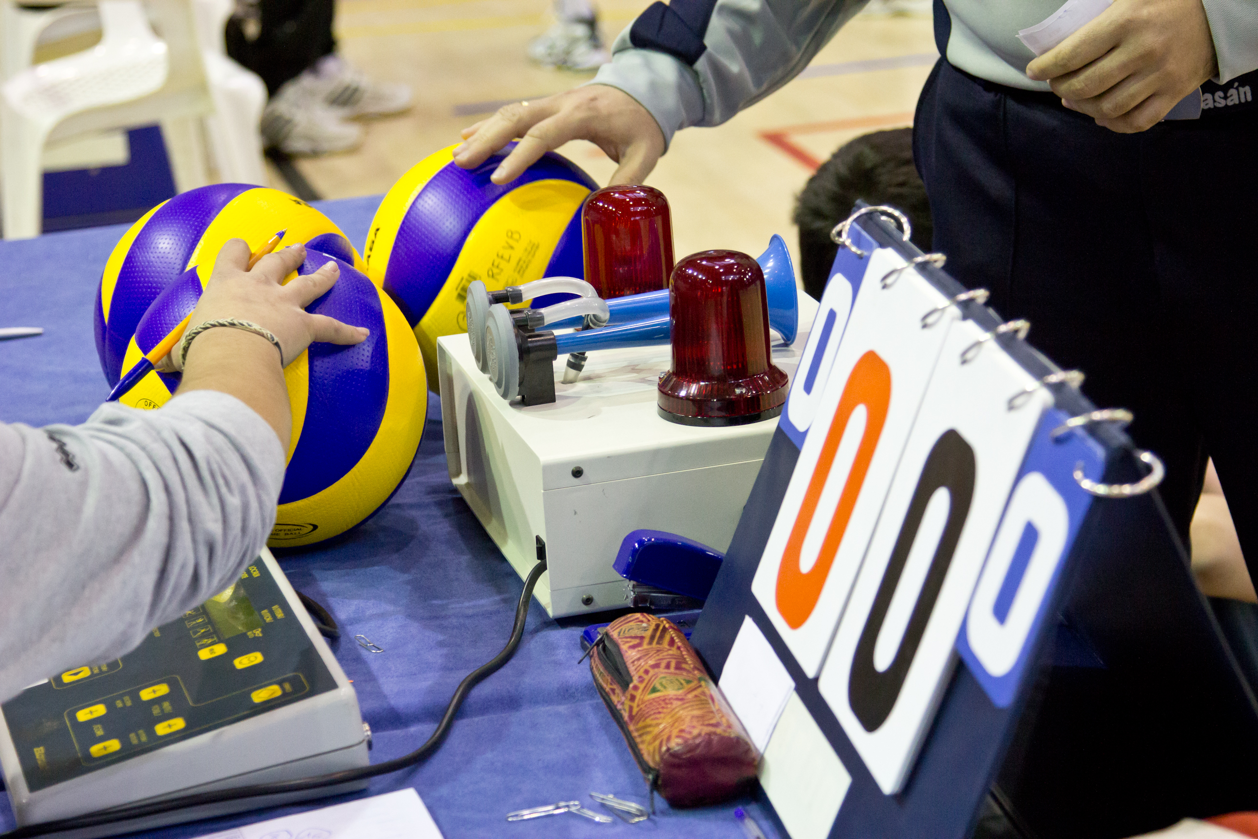 Volleyball scorers' table.